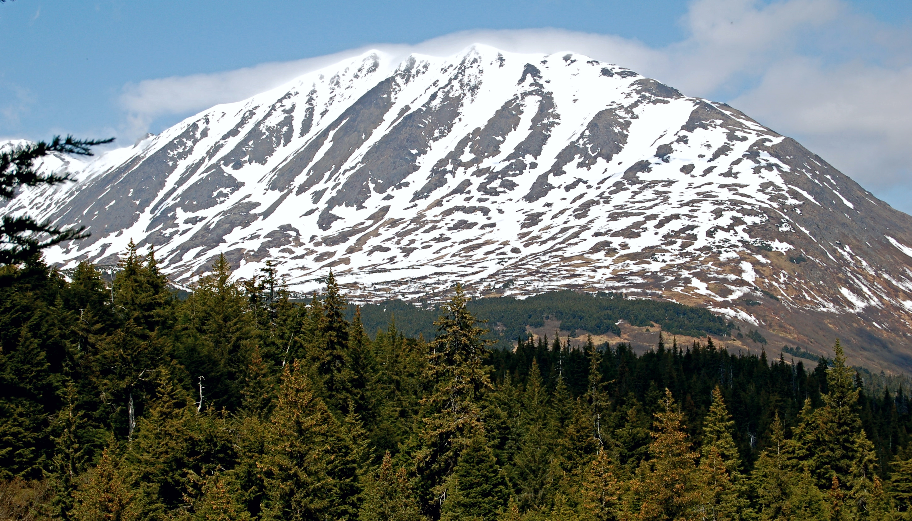 Mount Adair seen from southeast at Primrose Trail, near Seward, Alaska - May 29, 2011